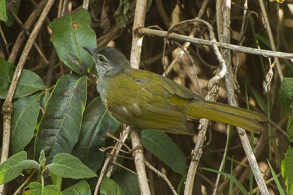 Eastern Mountain-Greenbul - Tanzania2008-03-01_0132